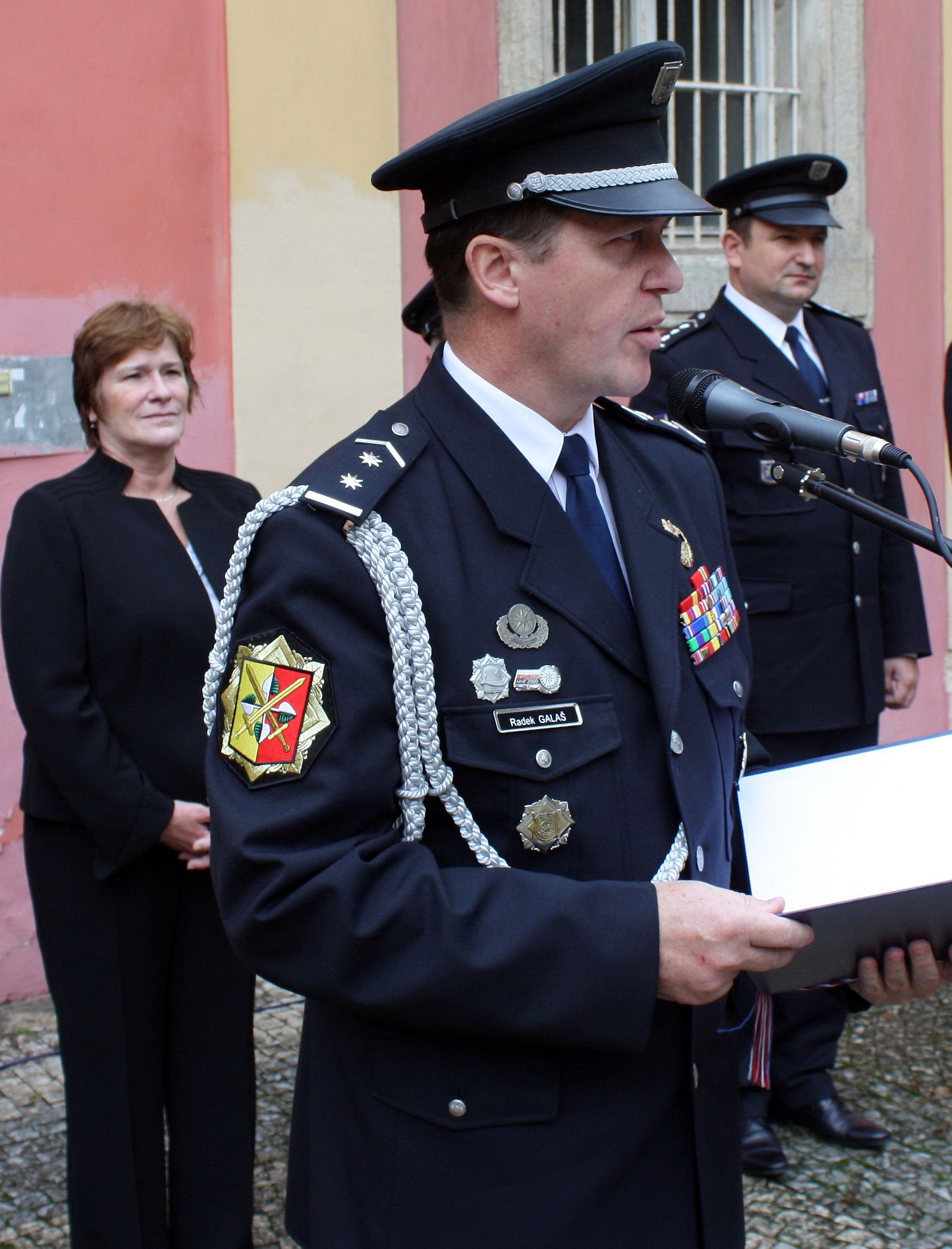 Ceremony in the beginning International conference of Police historians in the Museum of Czech police. Lieutenant colonel Radek Galaš from Police museum speaking.